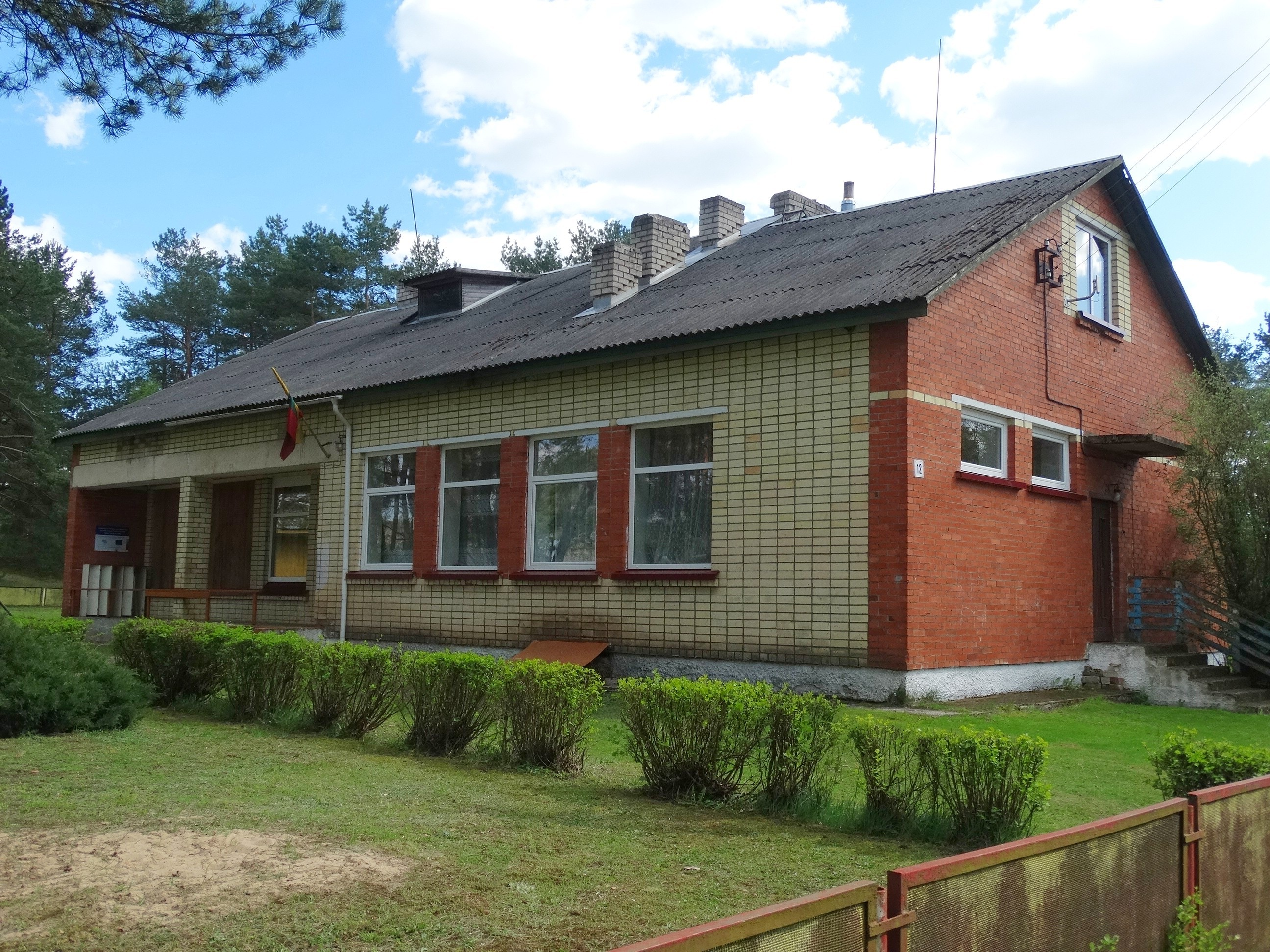 School, Tetėnai, Šalčininkai District, Lithuania